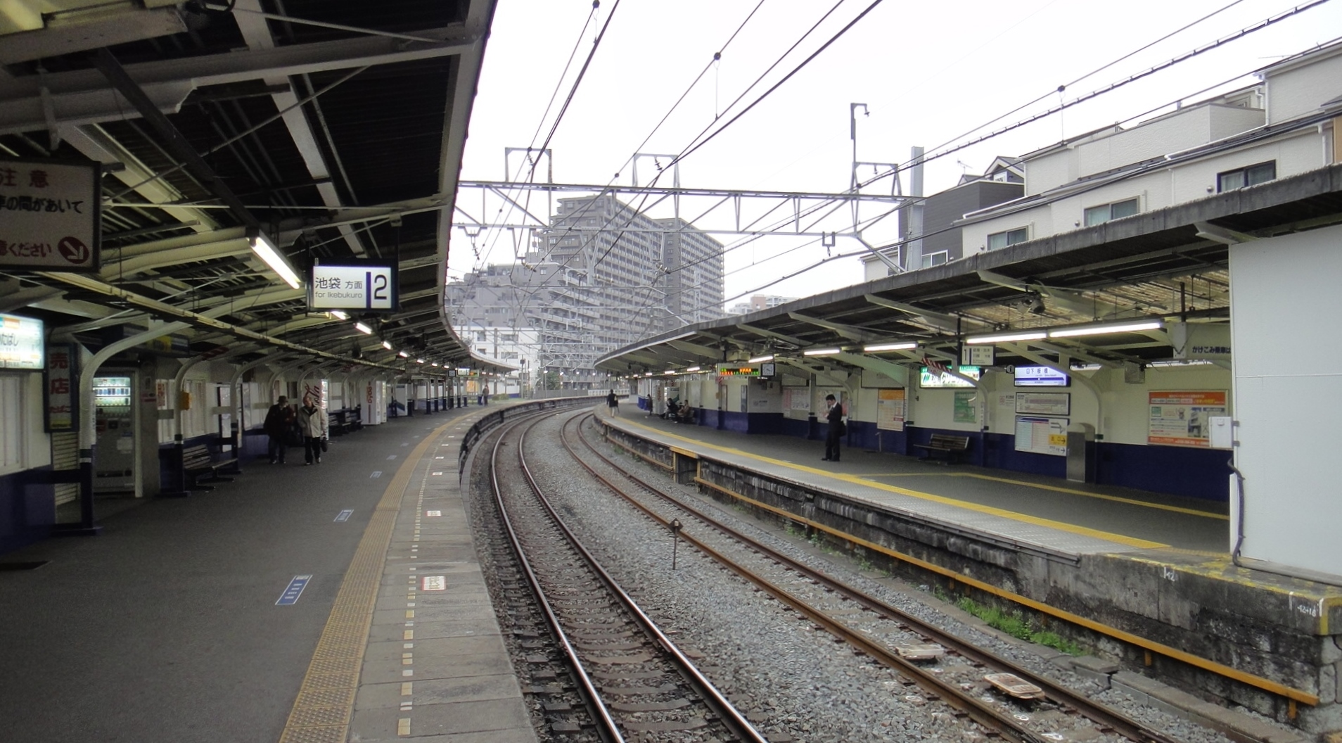 View from the down (Narimasu) end of Platform 2 at Shimo-Itabashi Station on the Tobu Tojo Line in Tokyo, Japan